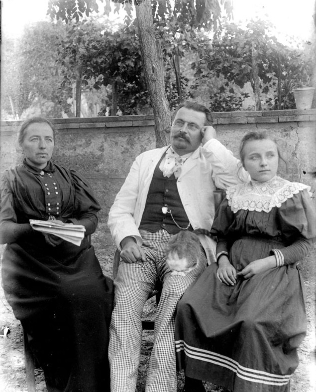 Photograph of Antonin Perbòsc's family (by Eugèni Trutat)